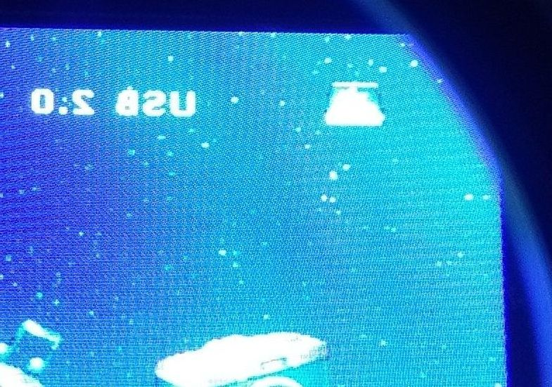 Close-up of the LCD panel of a mono-LCD projector appreciating the horizontal stripes from the original smartphone screen adapted as mono-LCD projector